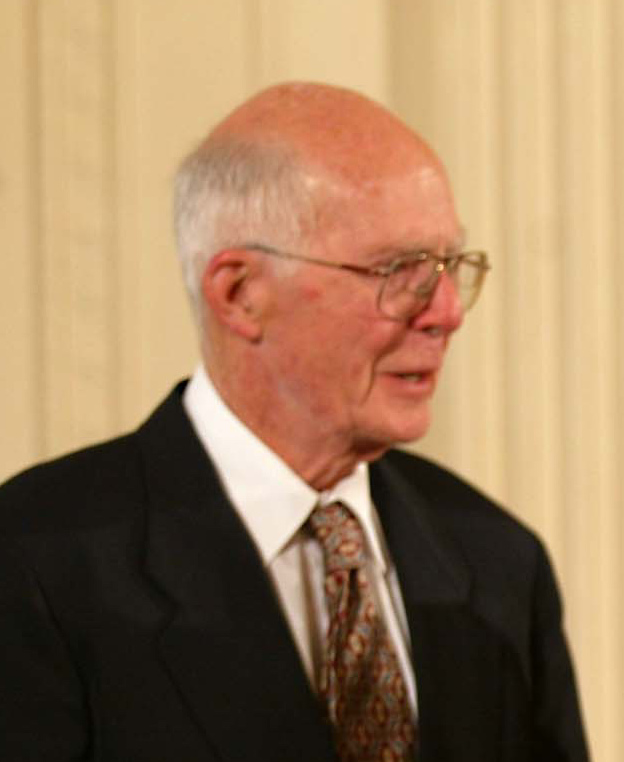 Raymond Davis, Jr. receives the Medal of Science from President Bush, with OSTP Director Marburger looking on.